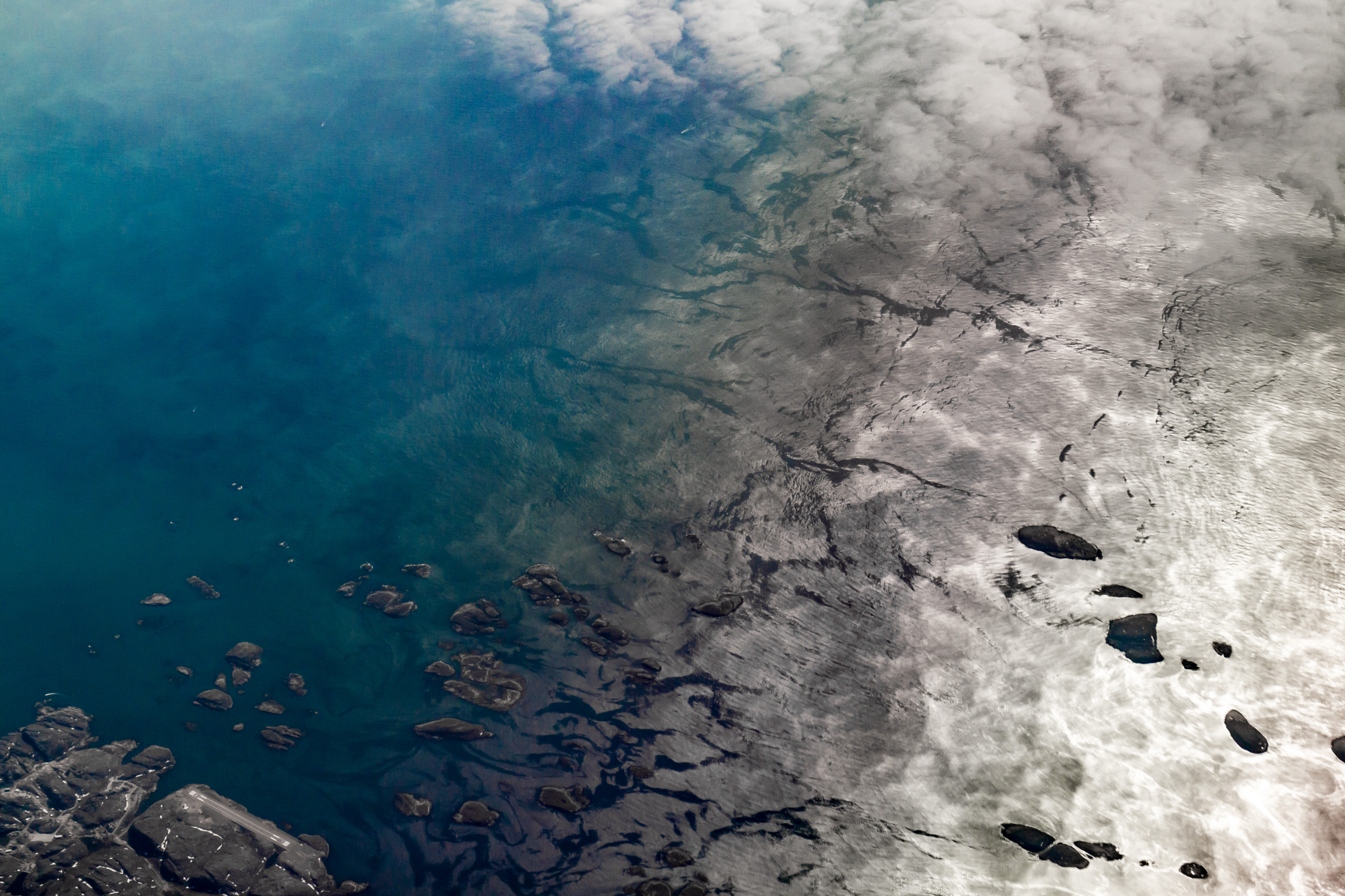 Maniitsoq Airport